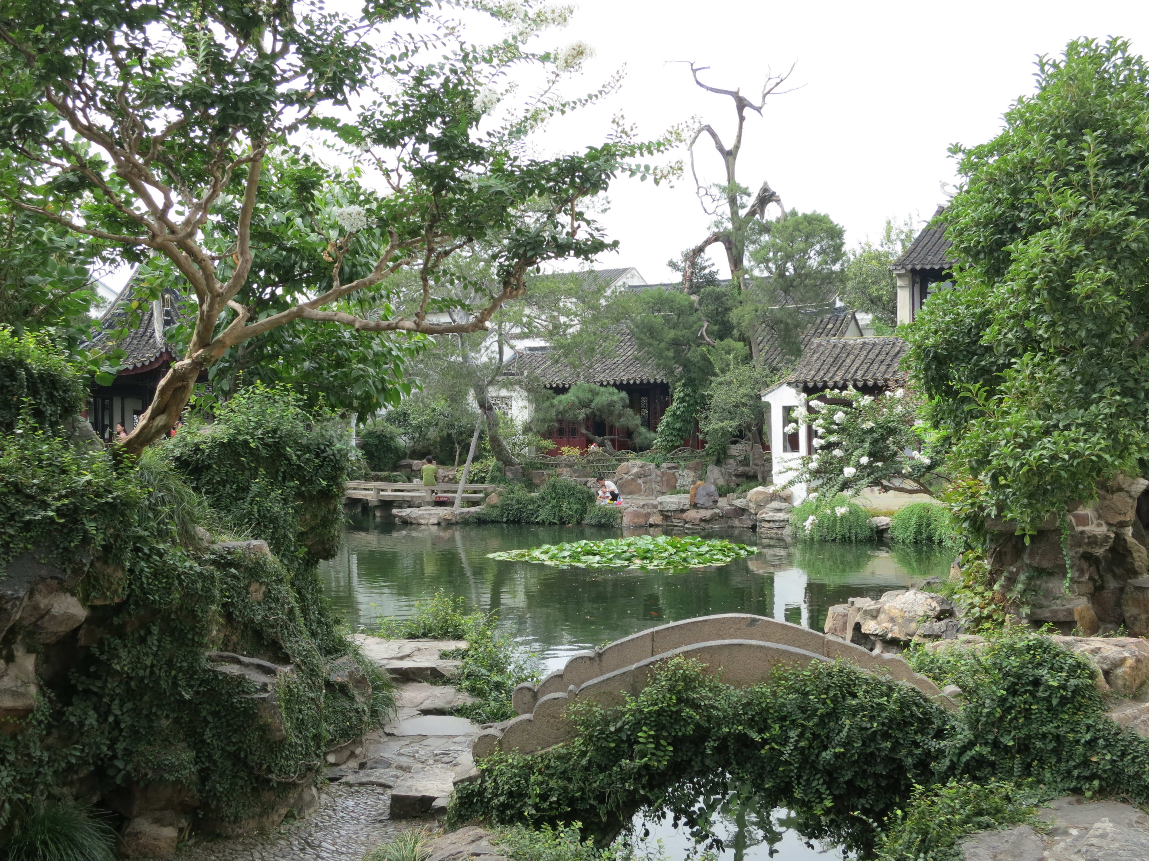 View of the main pond in the Master of the Nets Garden 网师园 in Suzhou, China